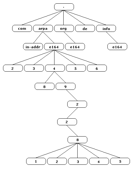 graphical representation of an enum zone for the area code of Bonn/Germany